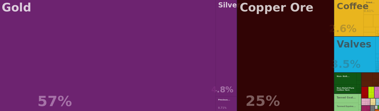 Eritrea Export map 2013